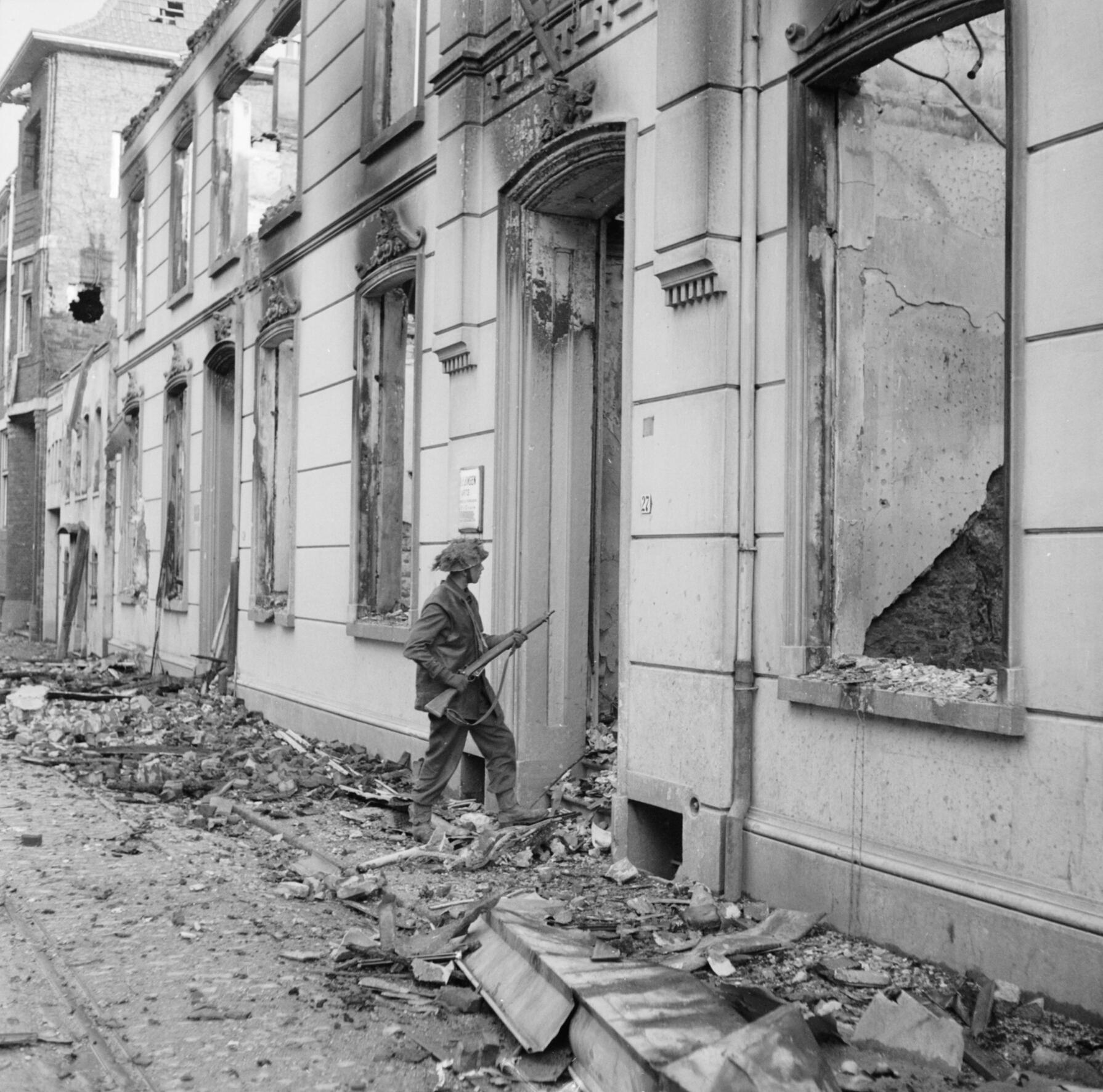 A soldier of 6th King's Own Scottish Borderers, 15th (Scottish) Division, searches wrecked buildings in Blerick, a suburb of Venlo in Holland, 5 December 1944. A soldier of 6th King's Own Scottish Borderers, 15th (Scottish) Division, searches wrecked buildings in Blerick, a suburb of Venlo in Holland, 5 December 1944.